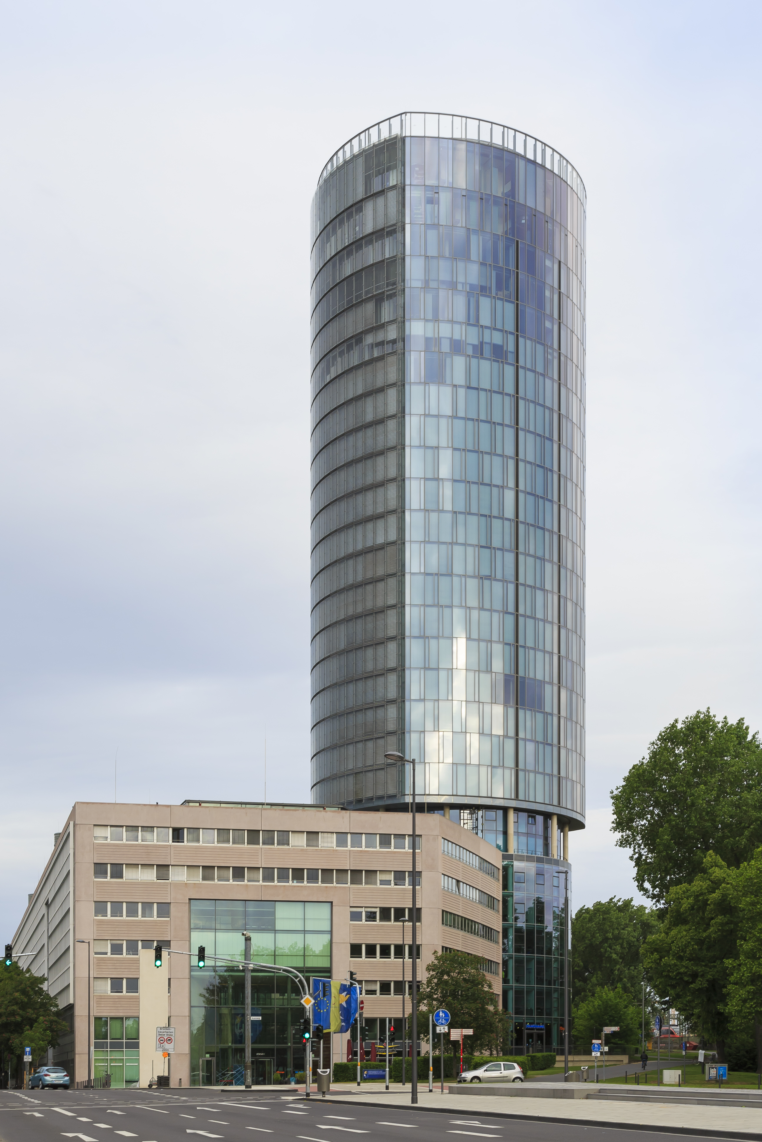 Cologne, Germany: KölnTriangle Tower in Köln-Deutz